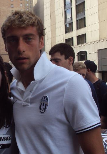 Italian football player Claudio Marchisio with Juventus FC at Toronto, Ontario, Canada in July 2011.